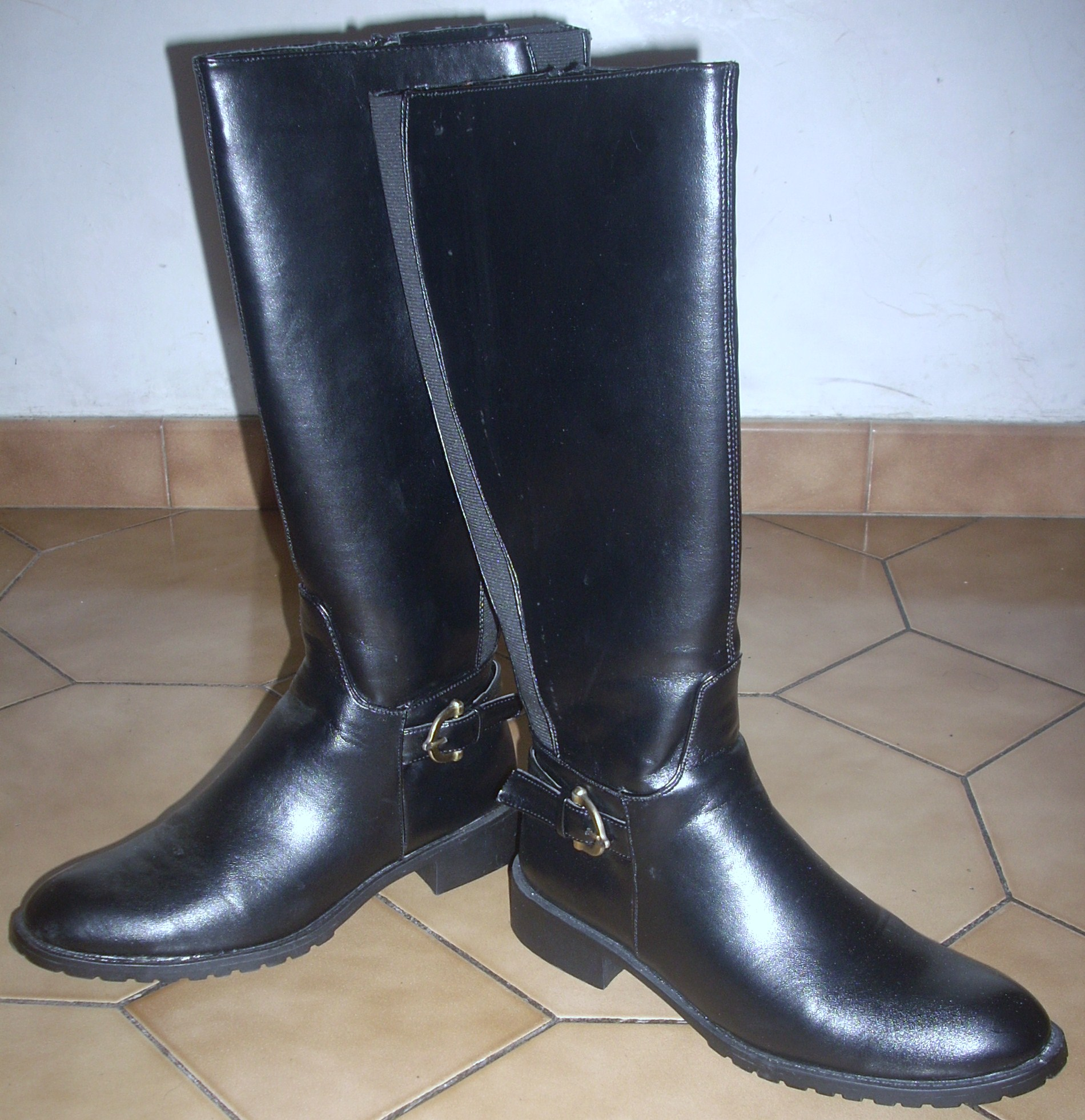 Boots of the Italian winter footwear styles of 2008/2009